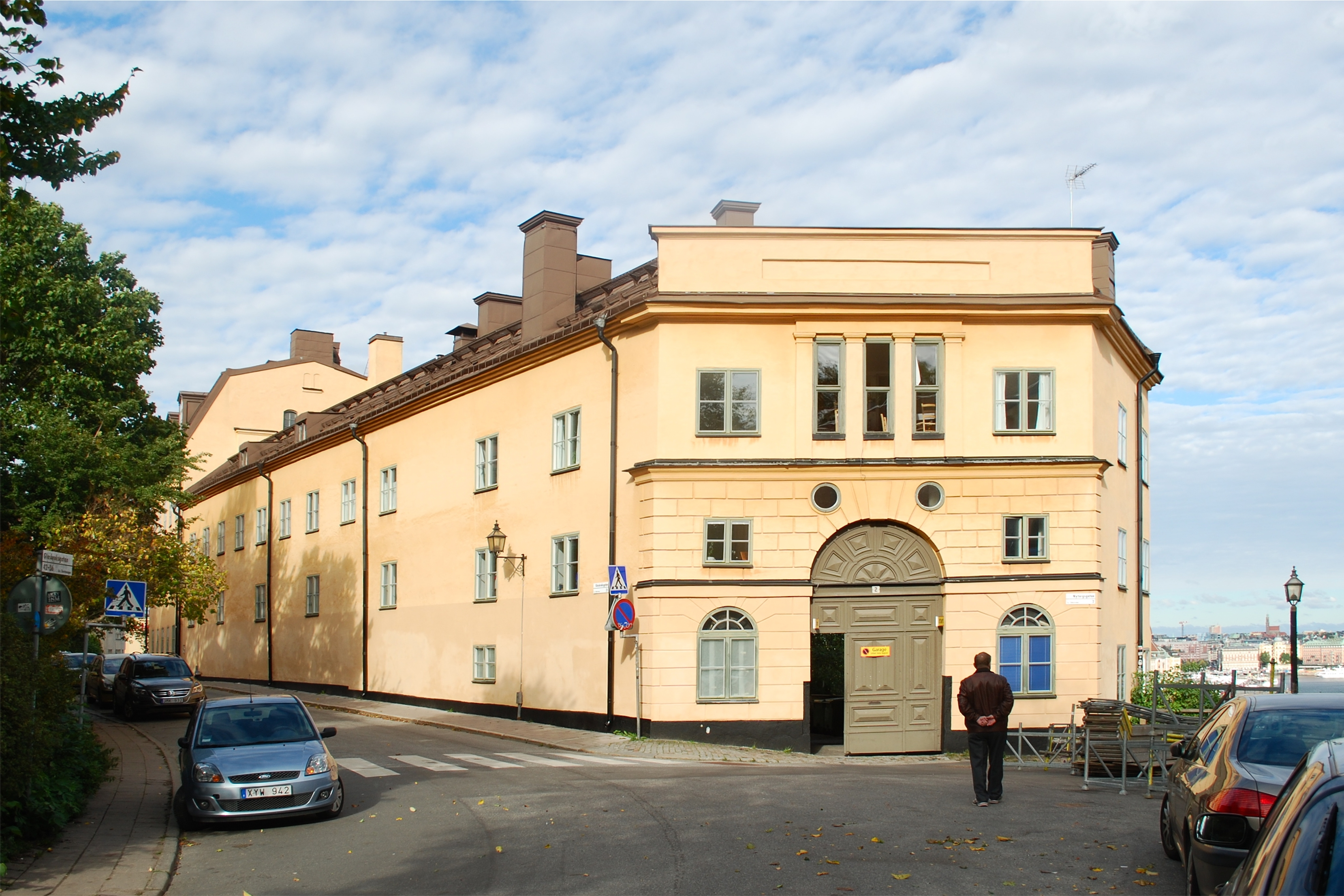 Kvarteret Dihlströms (The Dilhströms city block) from Nytorgsgatan. A historic workhouse (Dihlströmska arbetsinrättningen).